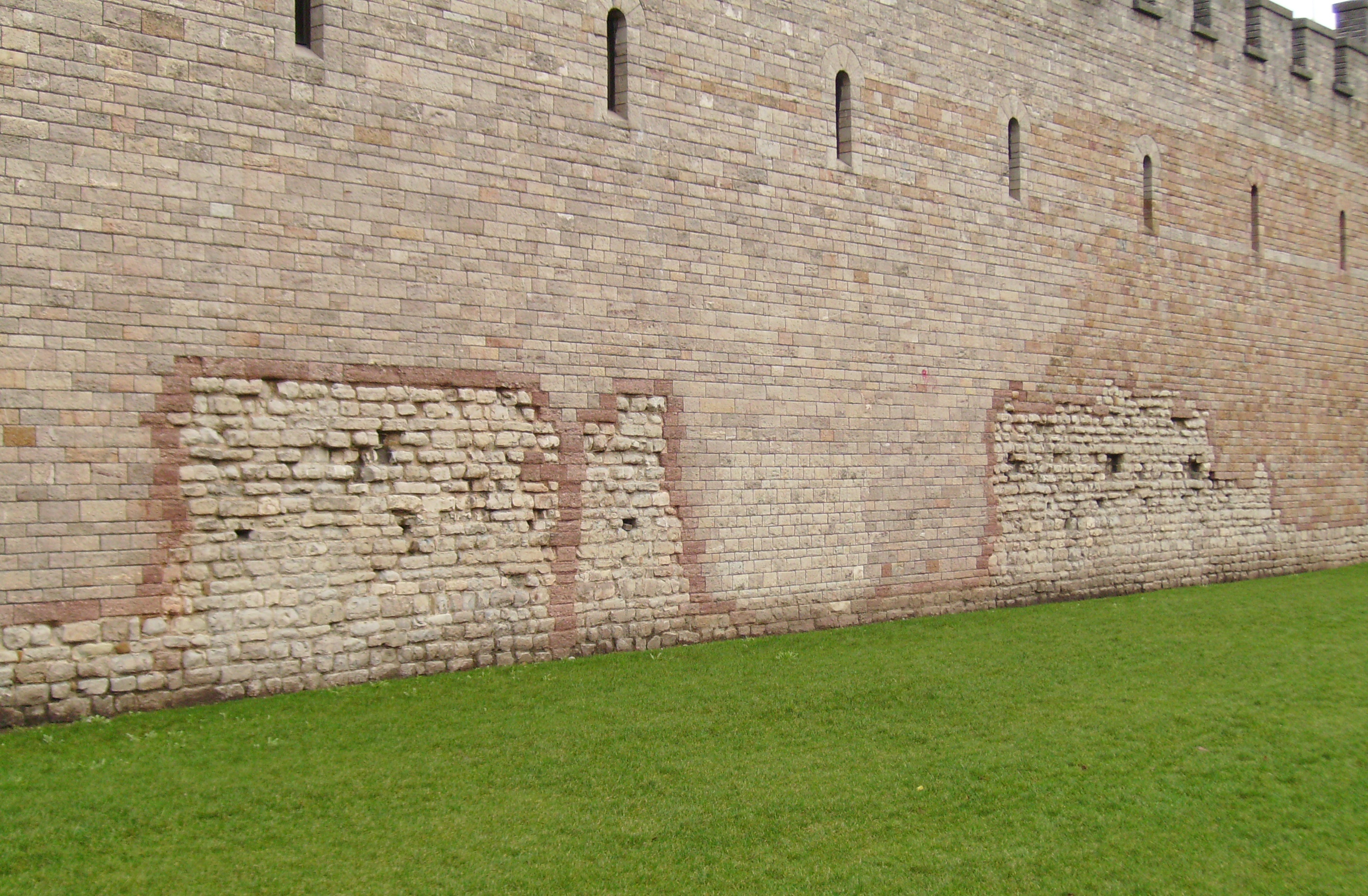 Cardiff Castle (Roman wall section), Cardiff, Wales[1]